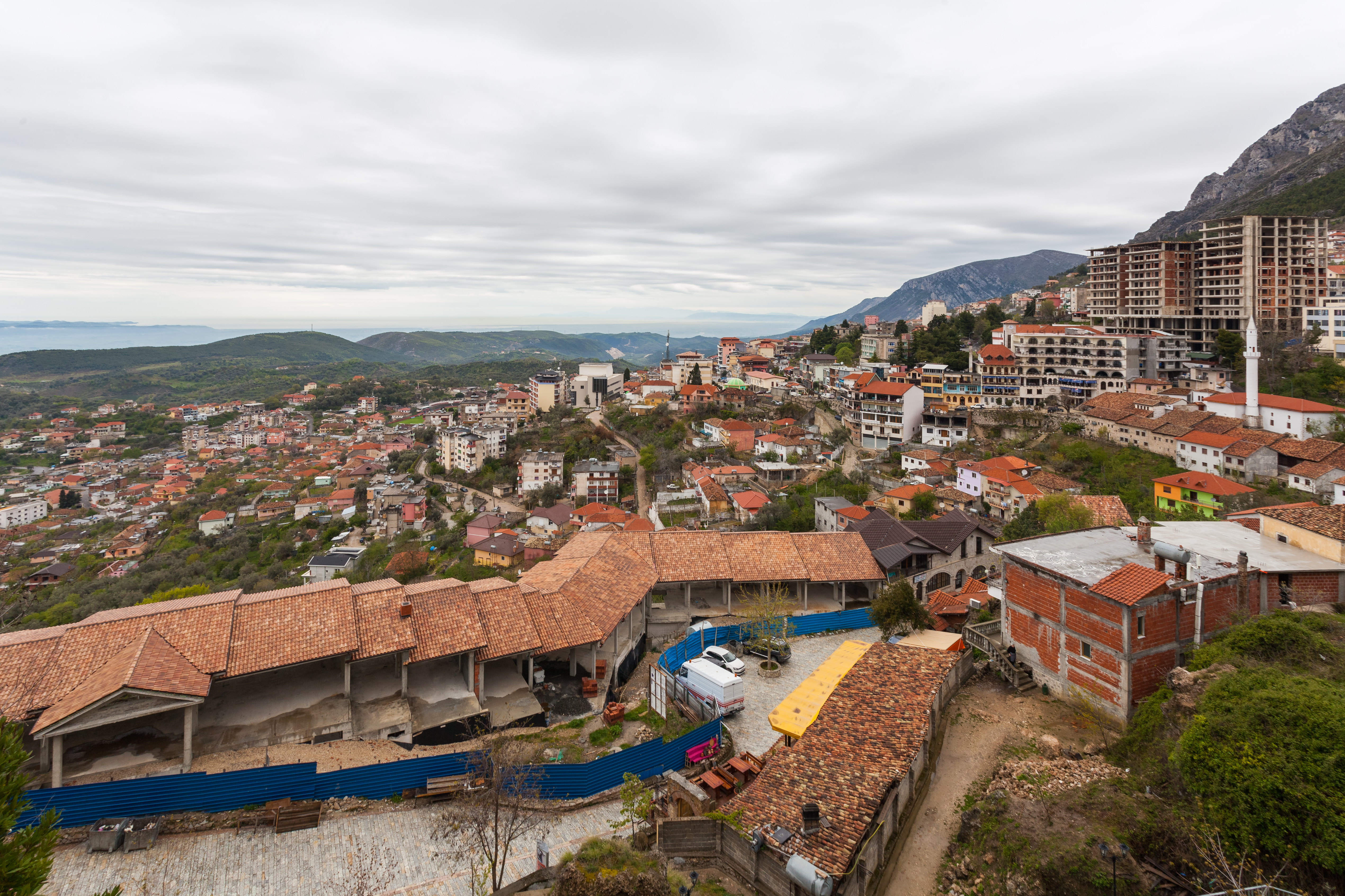 View of Kruja, Albania